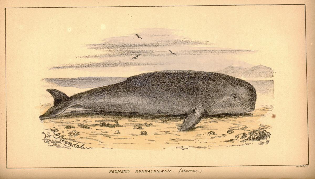 Image of first partial color illustration–that of the Finless Porpoise, subspecies Neomeris kurrachiensis–published in the Journal of the Bombay Natural History Society, volume 1, number 1, 1886, opposite p. 219.